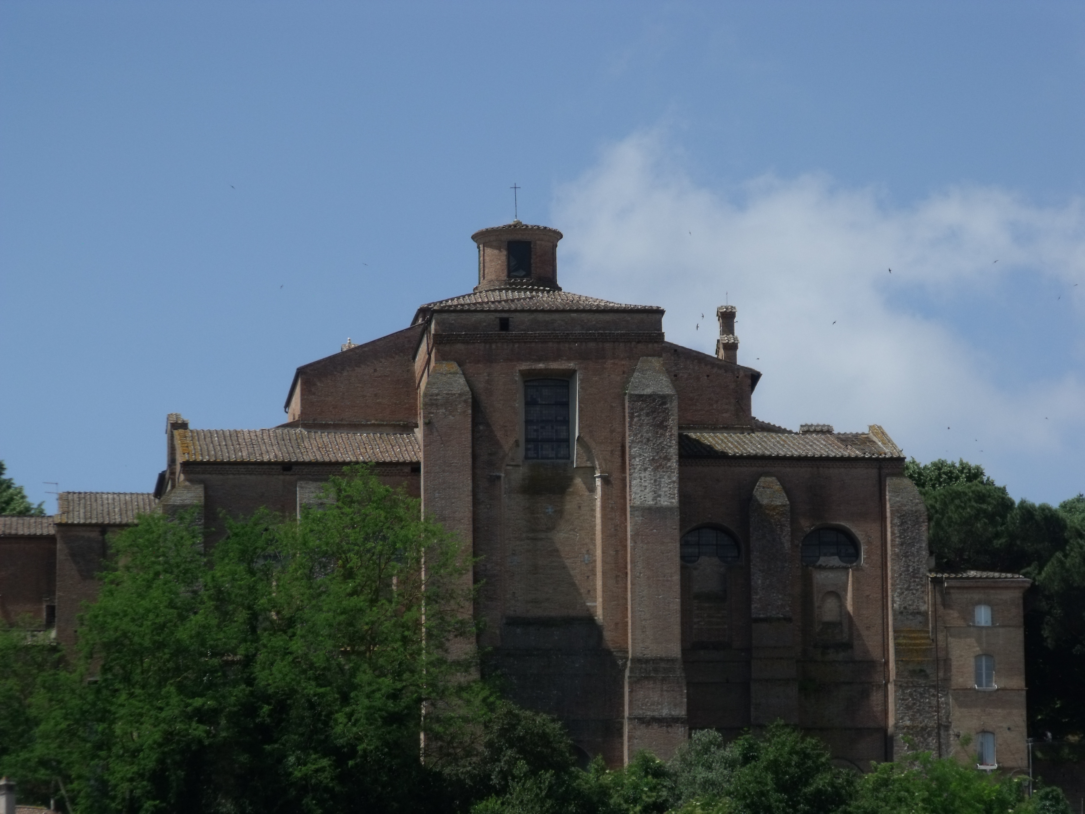 Church of Sant’Agostino, Siena, Tuscany, Italy